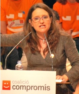 Mónica Oltra in a political meeting in 2011 for Compromís